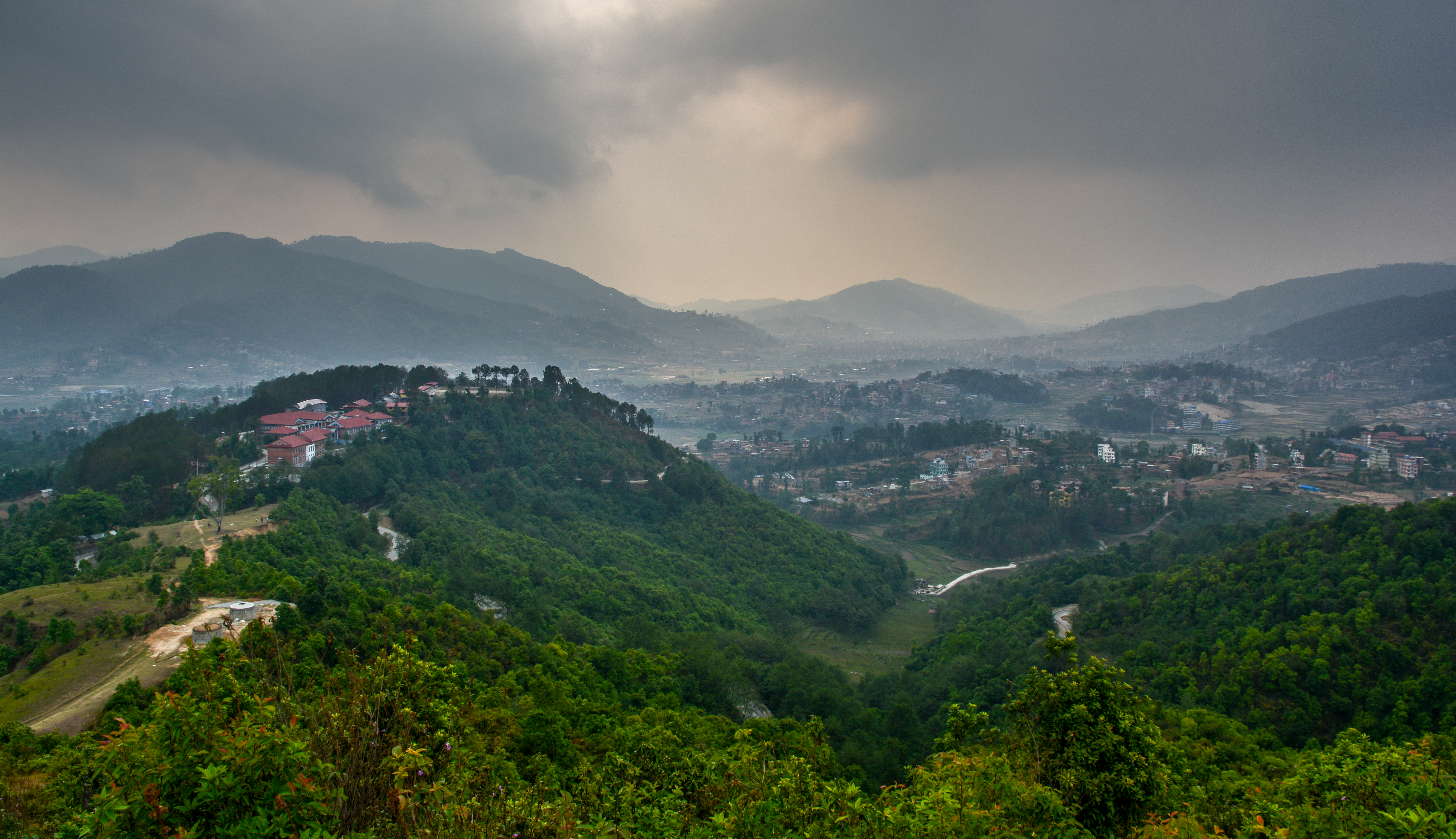 Valley of Dhulikhel as Seen from Chaukot